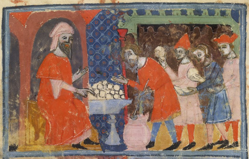 The master of the house distributing the matzot (unleavened bread) and the haroset (sweetmeat). From the Haggadah for Passover (the 'Sister Haggadah').